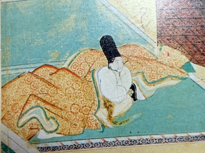 Fujiwara no Tokihira